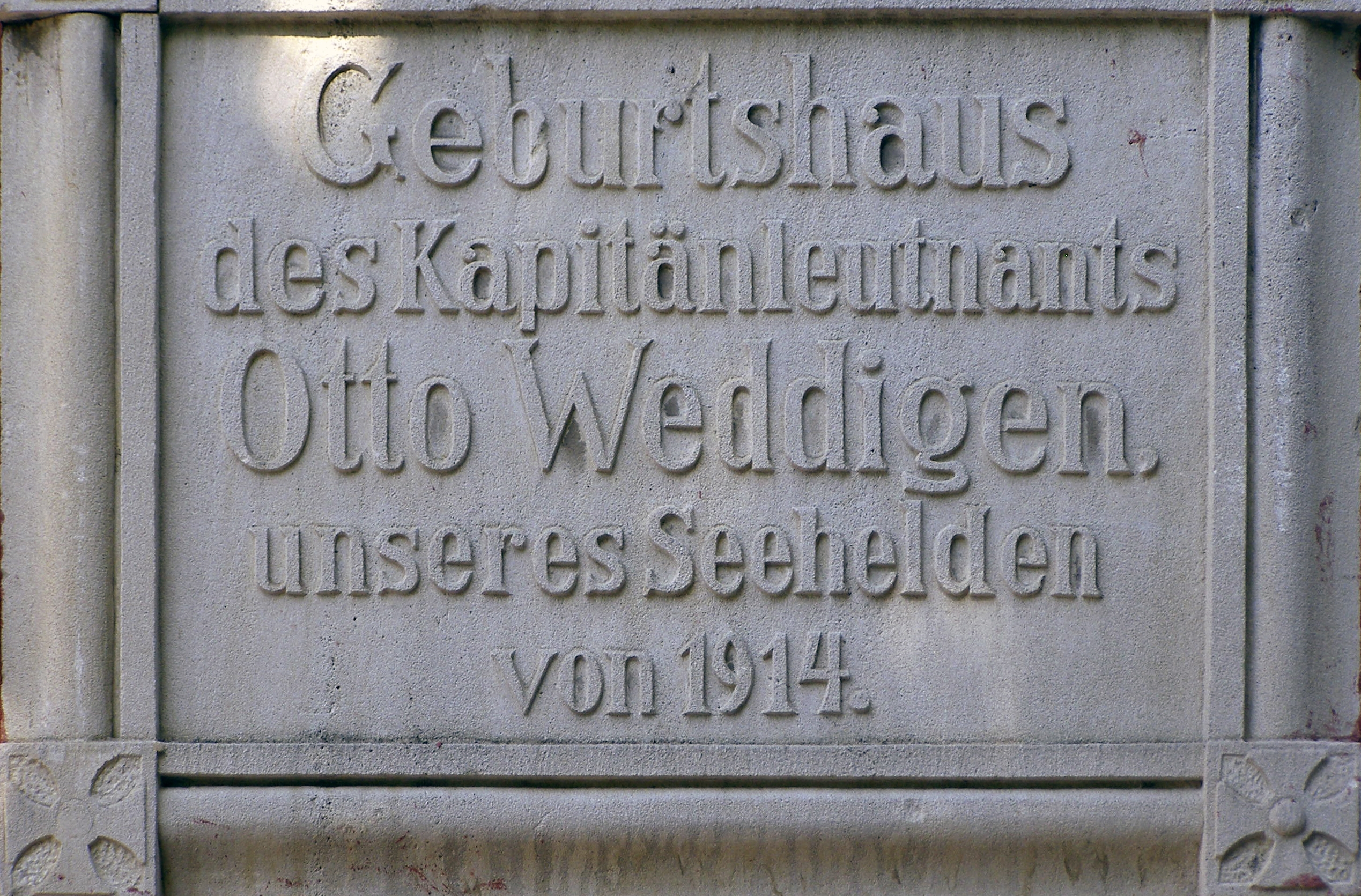 Plaque in town of Herford, District of Herford, North Rhine-Westphalia, Germany.